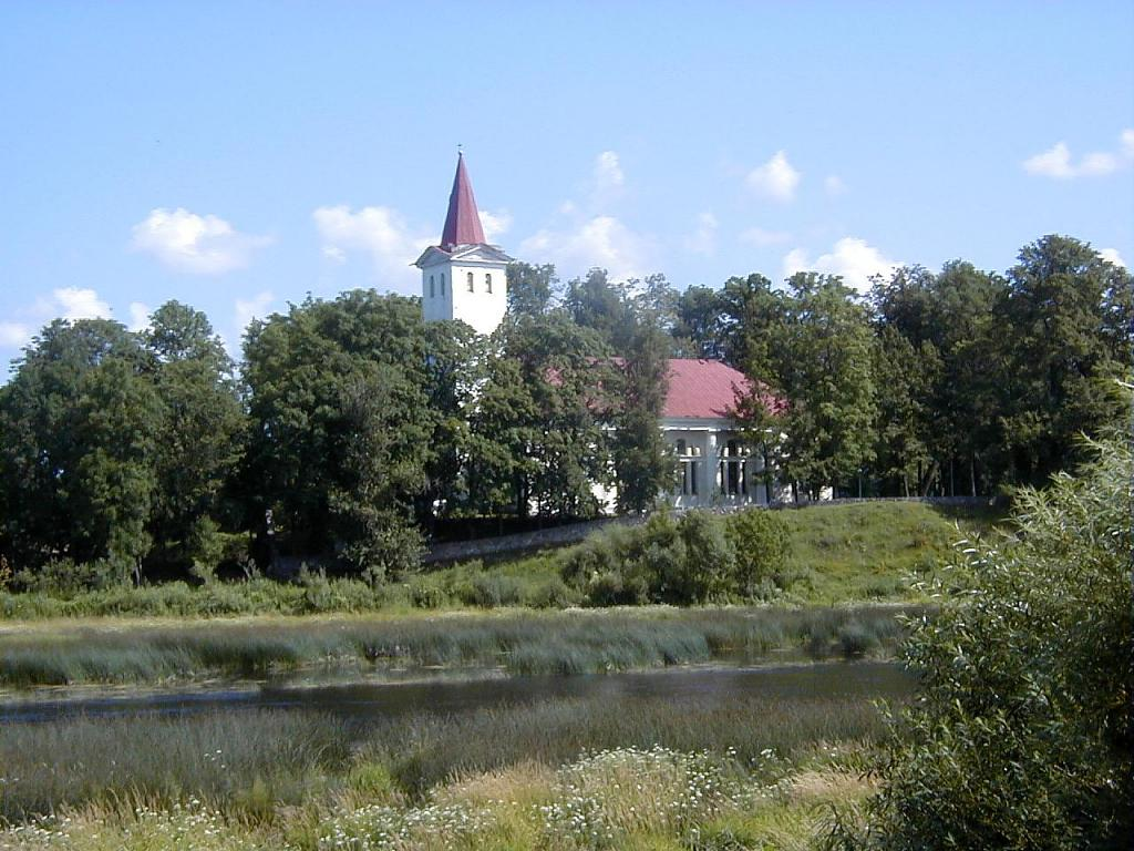 Krustpils Evangelical Lutheran Church in JēkabpilsLatviešu: Krustpils evaņģēliski luteriskā baznīca Jēkabpilī